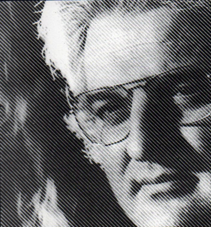 Pictures of Luciano Frigerio